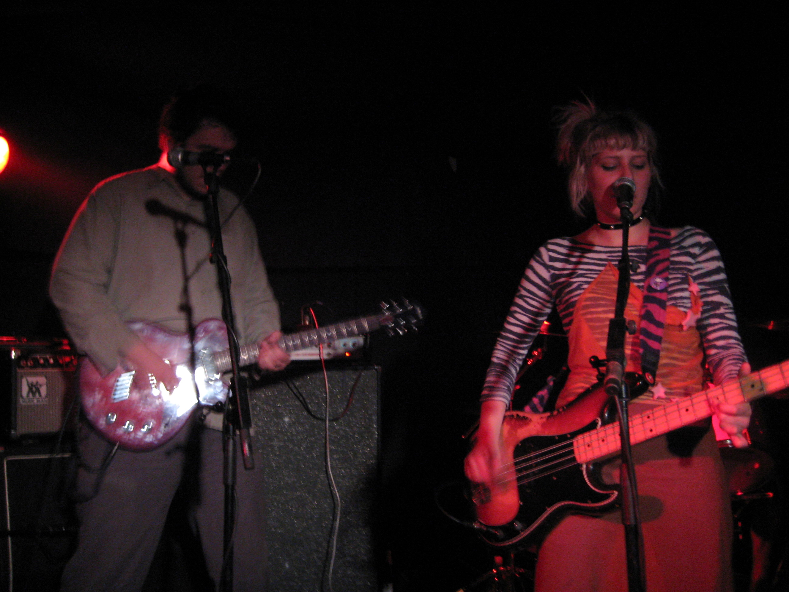 Croatian-Slovenian band Analena, Interstellar Festival 2008 (Linz, Austria)